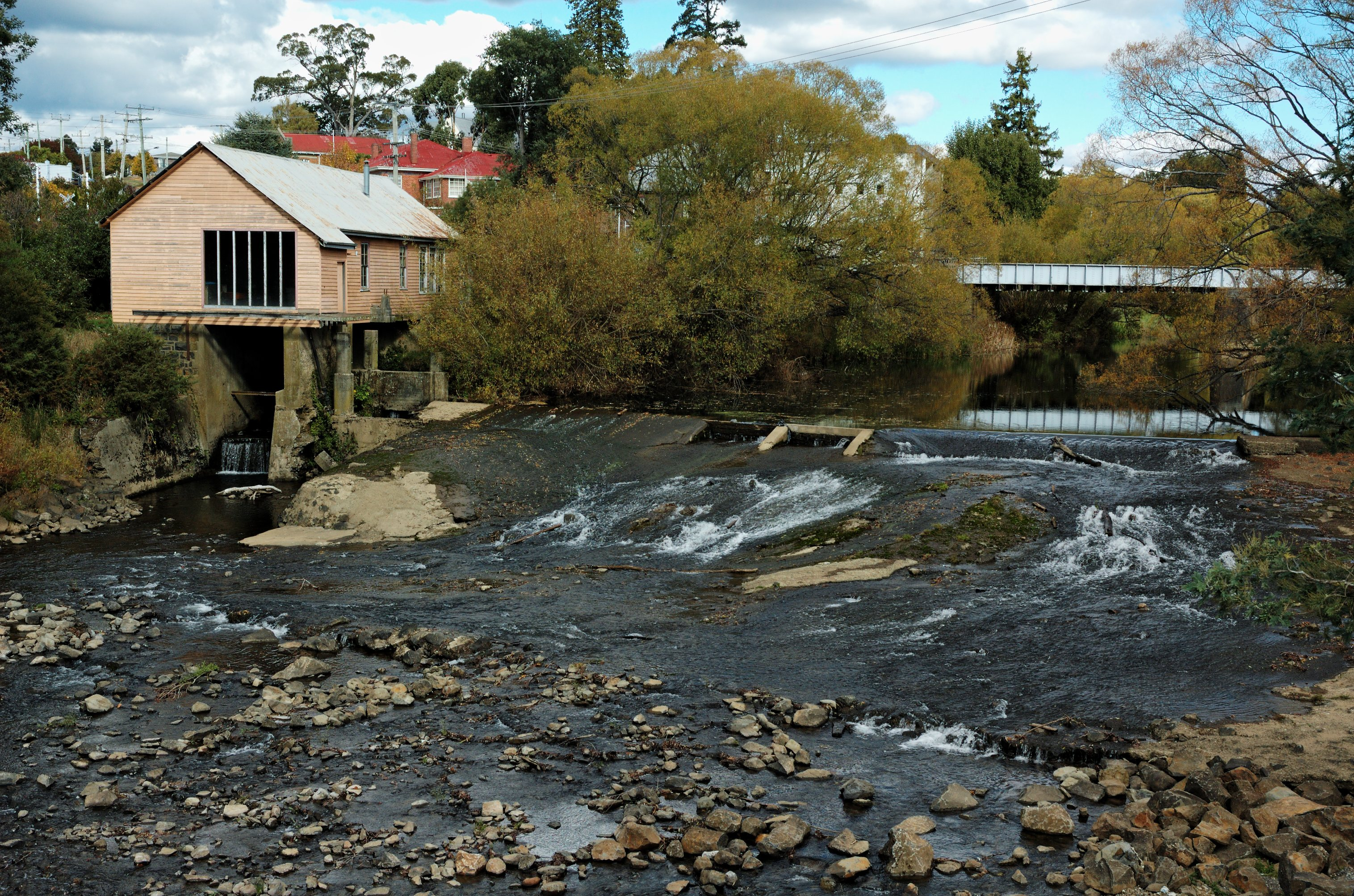 Weir and power station in Deloraine, Tasmania.